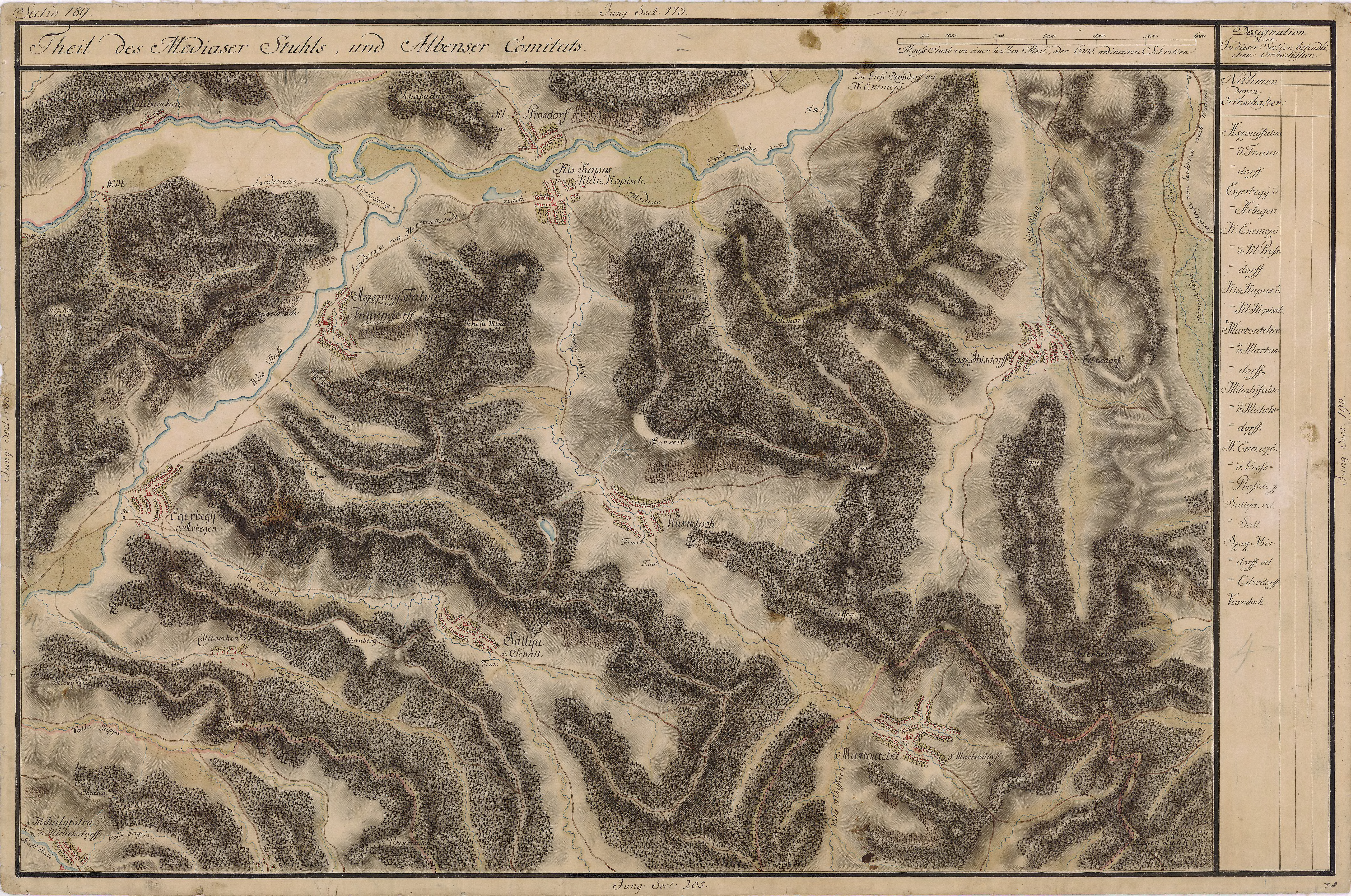 Grand Duchy of Transylvania, 1769-1773. Josephinische Landaufnahme pg.189